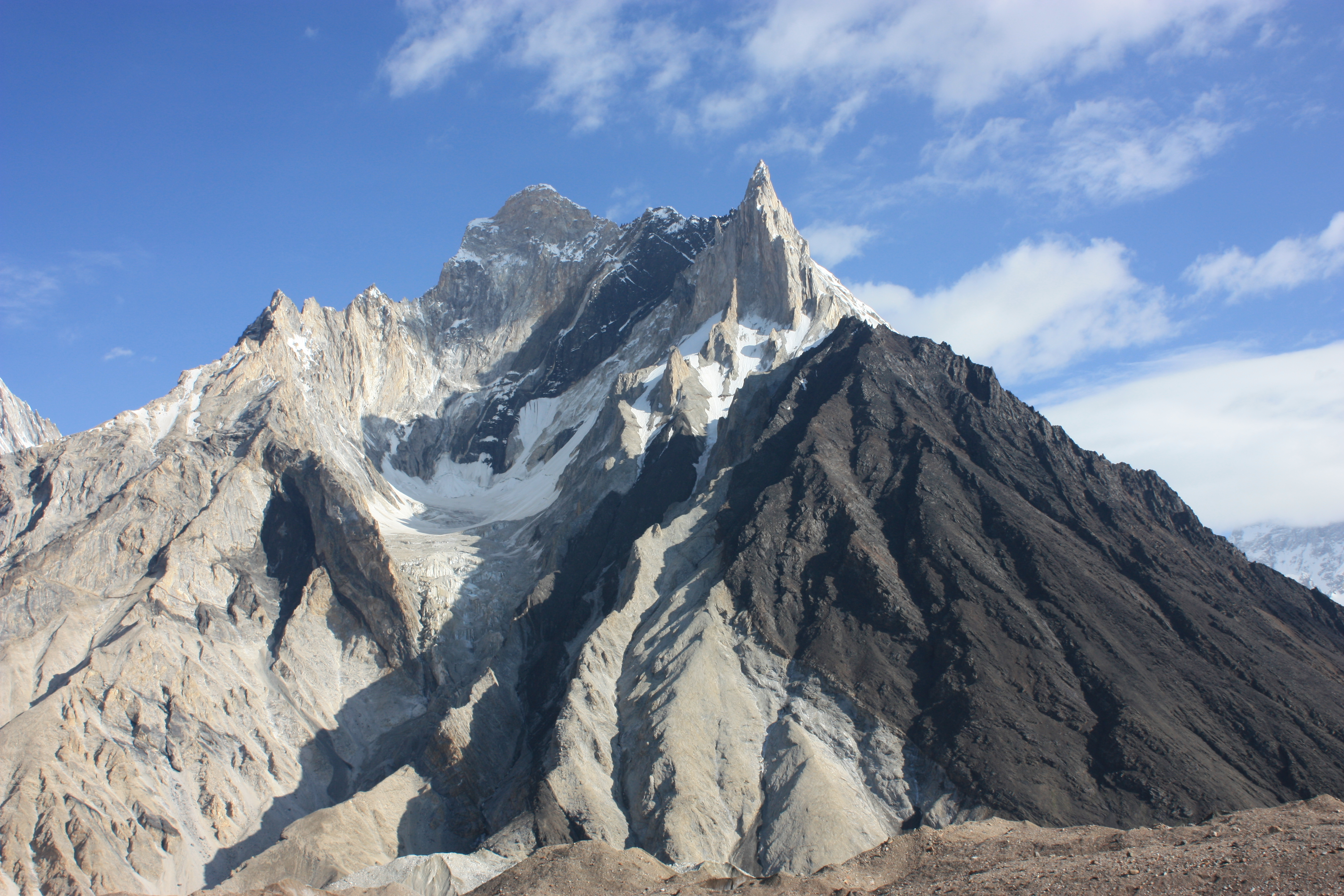 Marble Peak (6256 m) on the northwestern corner of Concordia, where Baltoro and Godwin-Austen glaciers unite